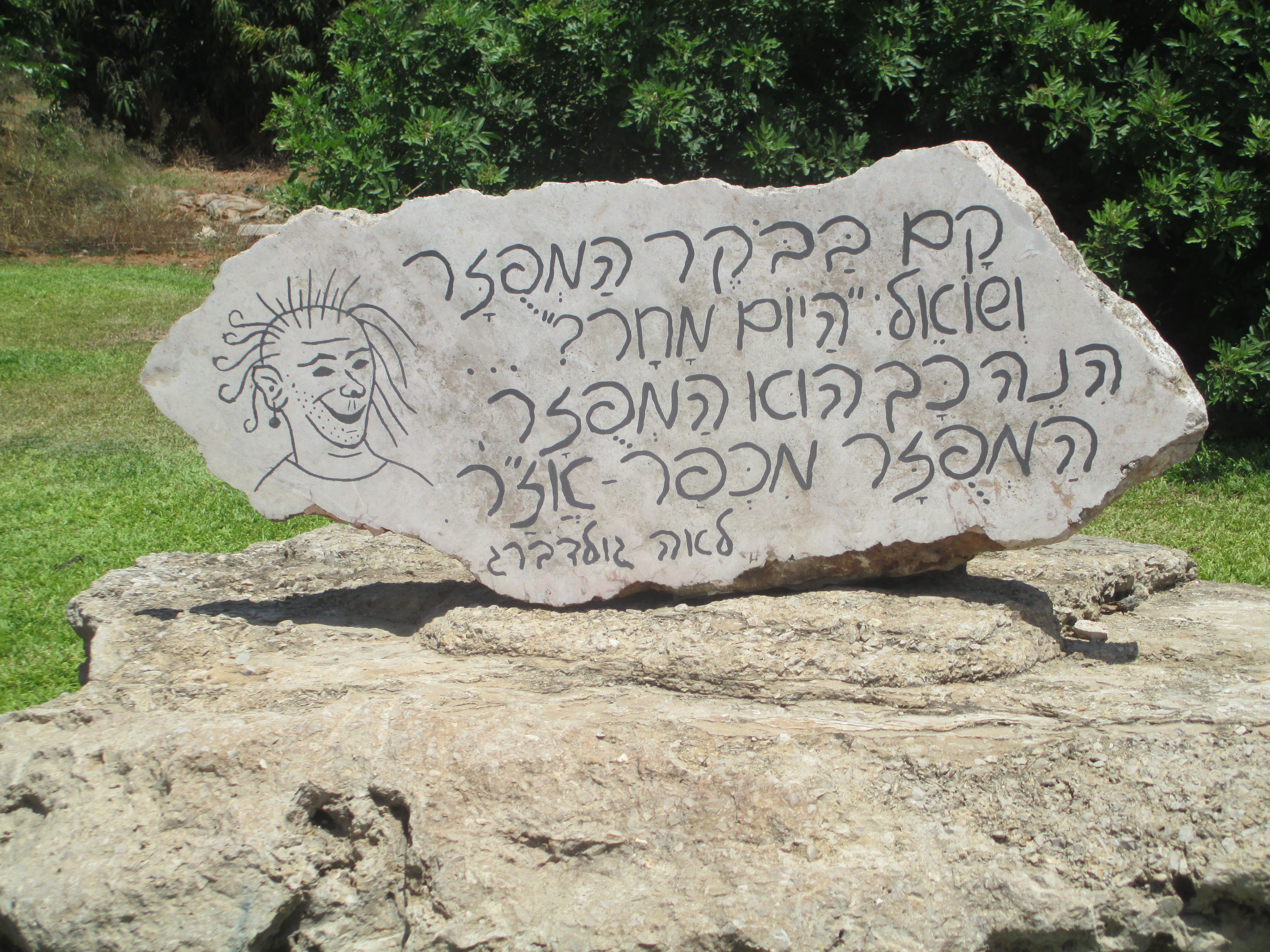 Kfar Azar